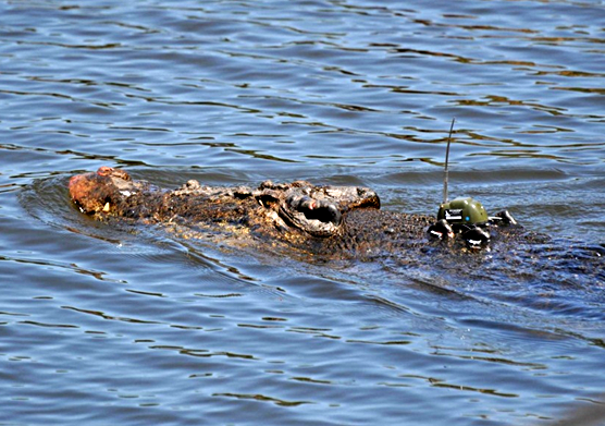 Crocodylus porosus with GPS-based satellite transmitter attached to the nuchal rosette.